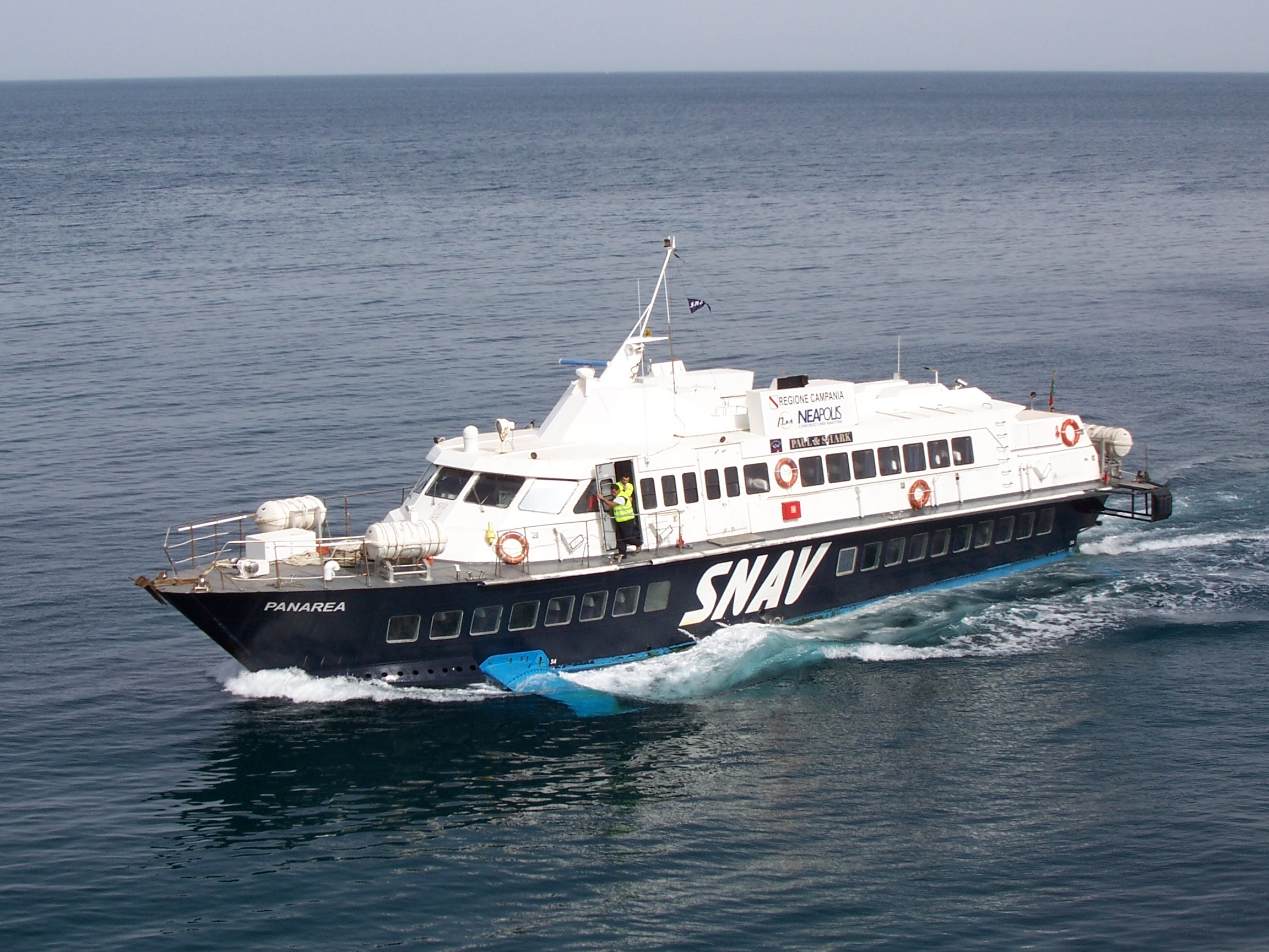 Hydrofoil 'Panarea' (Type RHS 150 F) of Snav